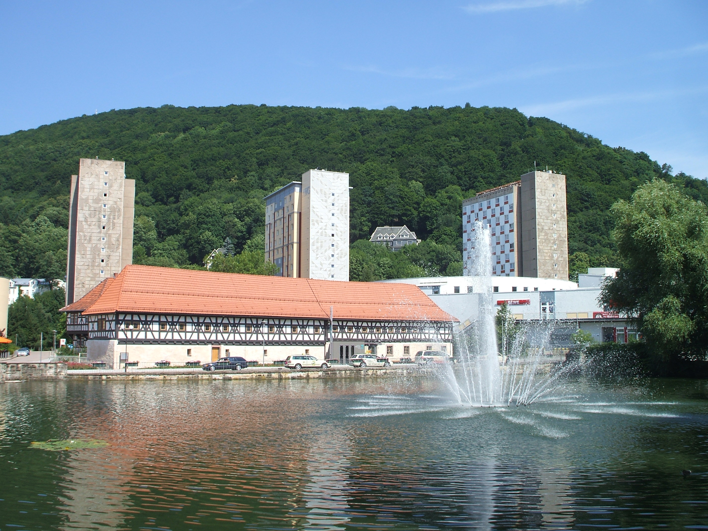 Weapon Museum, Suhl, Germany